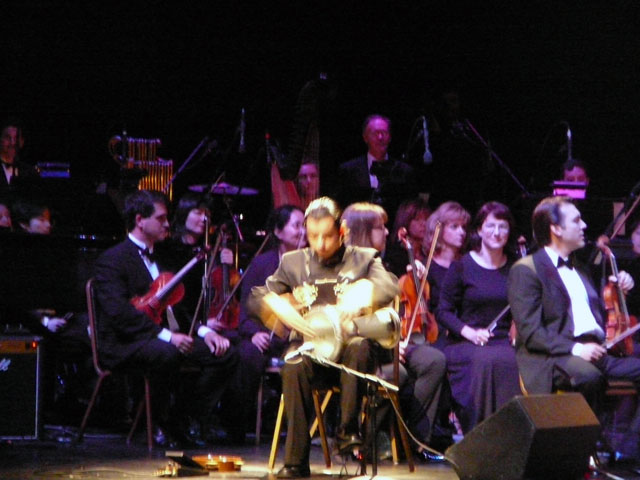 "The best song was the Chrono Trigger/Cross medley, featuring this guy (Rony Barrak) prominently during "Time's Scar". Gorgeous."